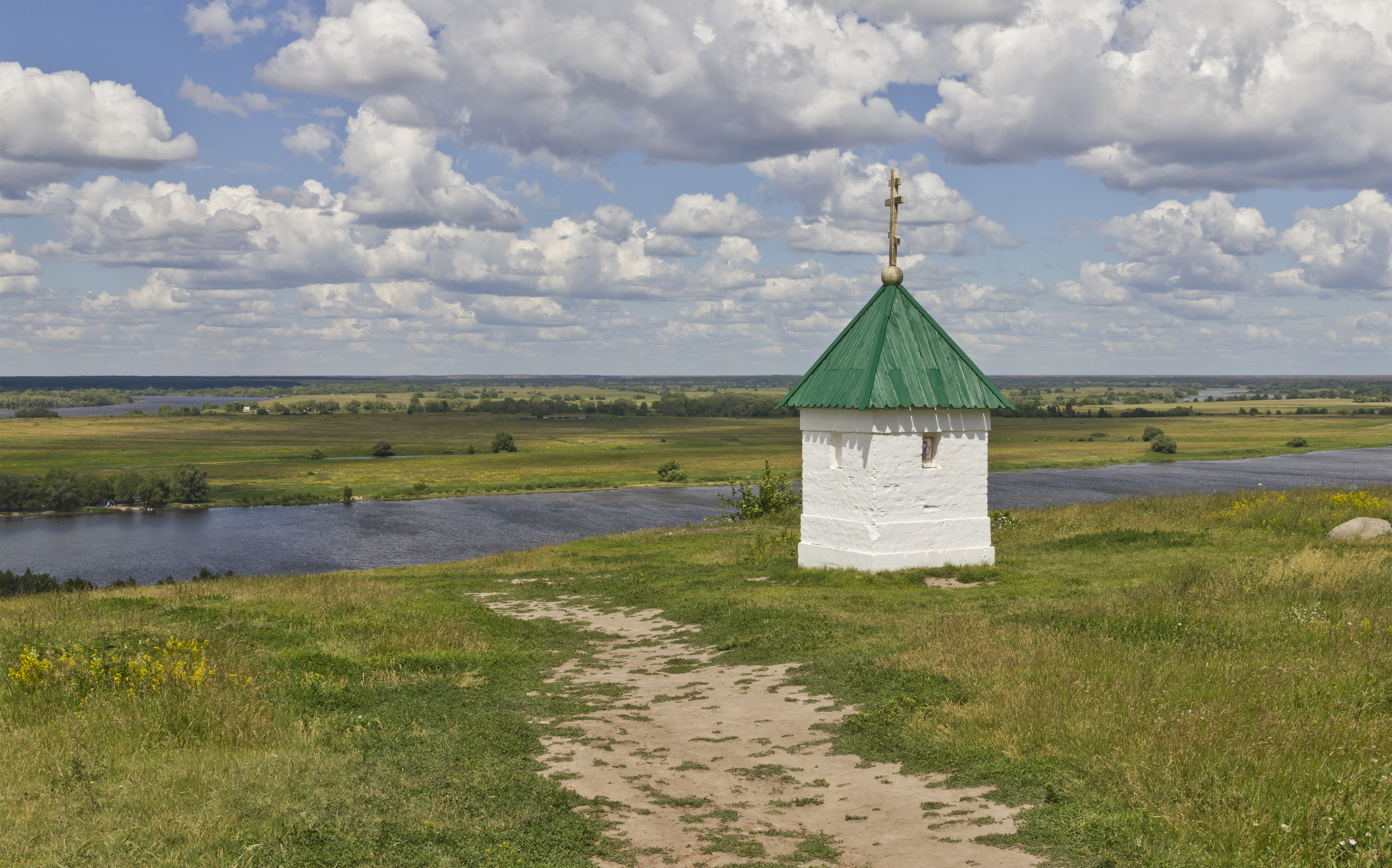 View to the Oka River from Konstantinovo village, Ryazan Oblast, Russia